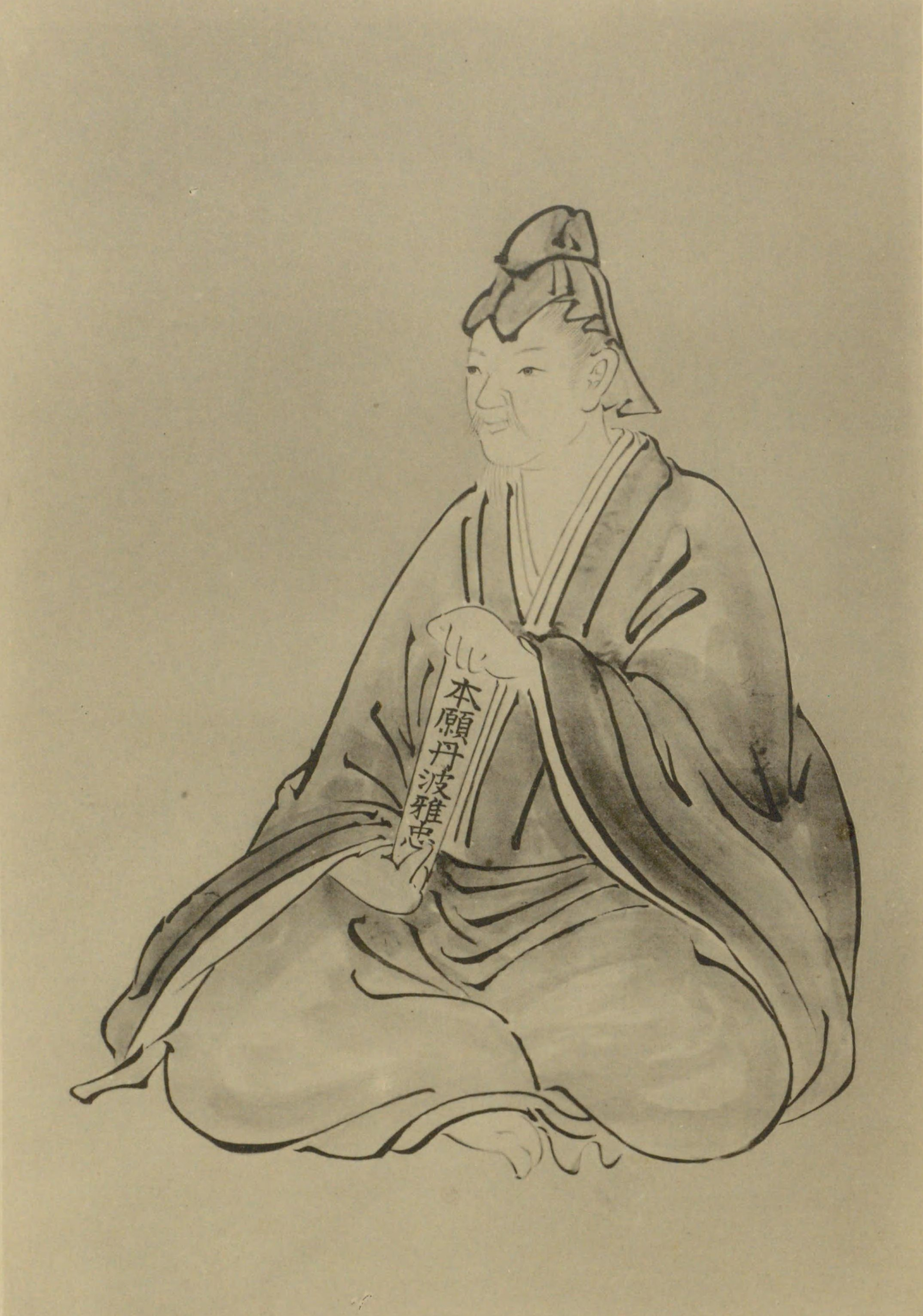 Portrait of Izumo no Hirosada